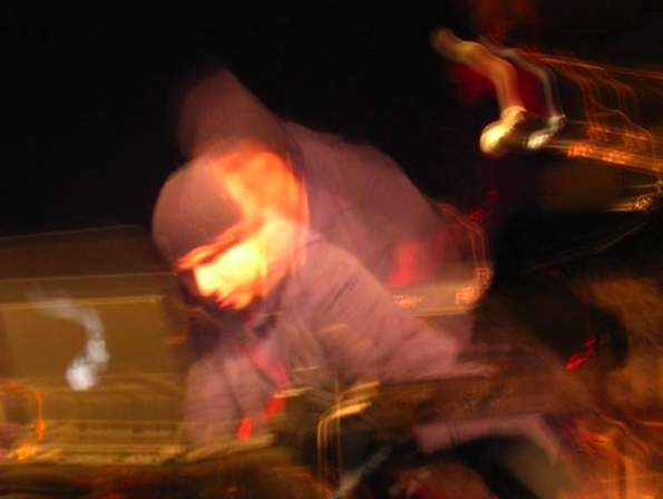 Svoy performing at CBGB's on April 22, 2006